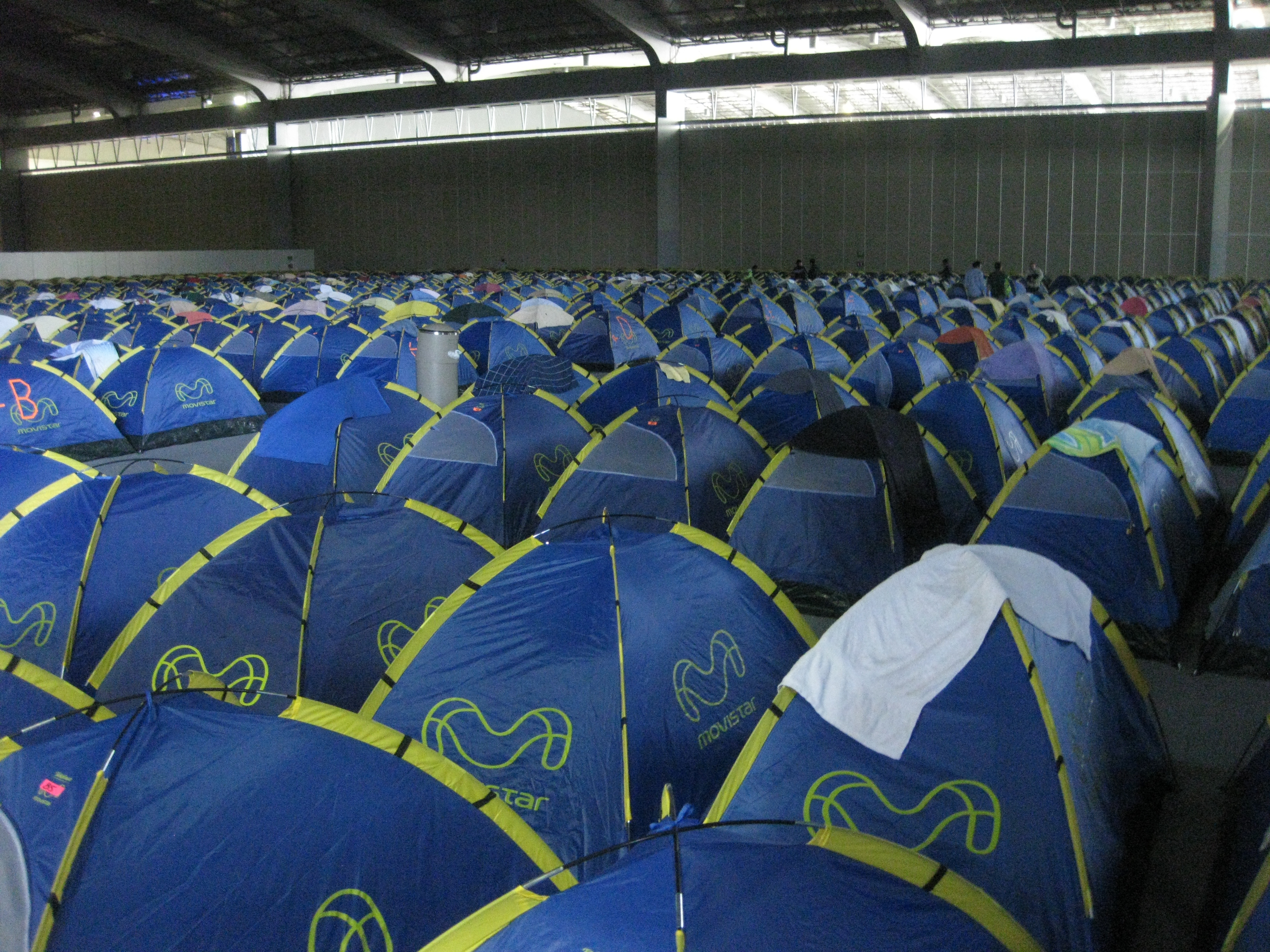 Camping at Campus Party México 2009 (CPMX1)